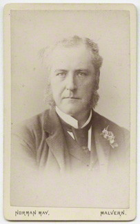 Frederick Lygon, 6th Earl Beauchamp